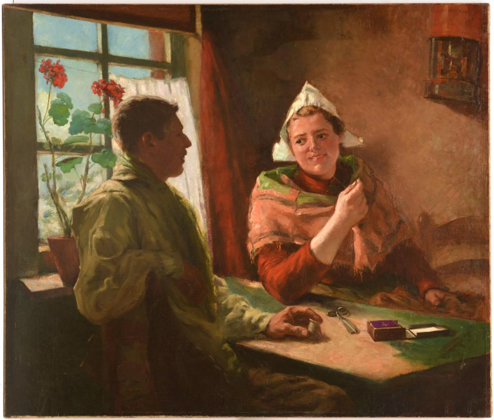 Couple in conversation